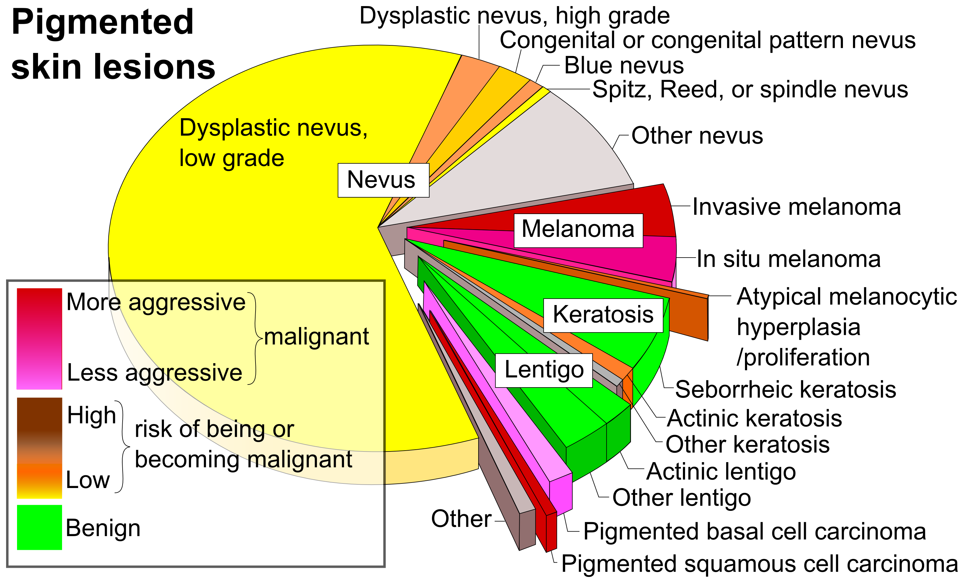 Pie chart of various differential diagnoses of pigmented skin lesions, by relative incidence for those undergoing biopsy, and malignancy potential, from a United States population. The actual relative incidence of benign diagnoses is presumed to be substantially under-represented, since such diagnoses are often achieved without performing biopsy.